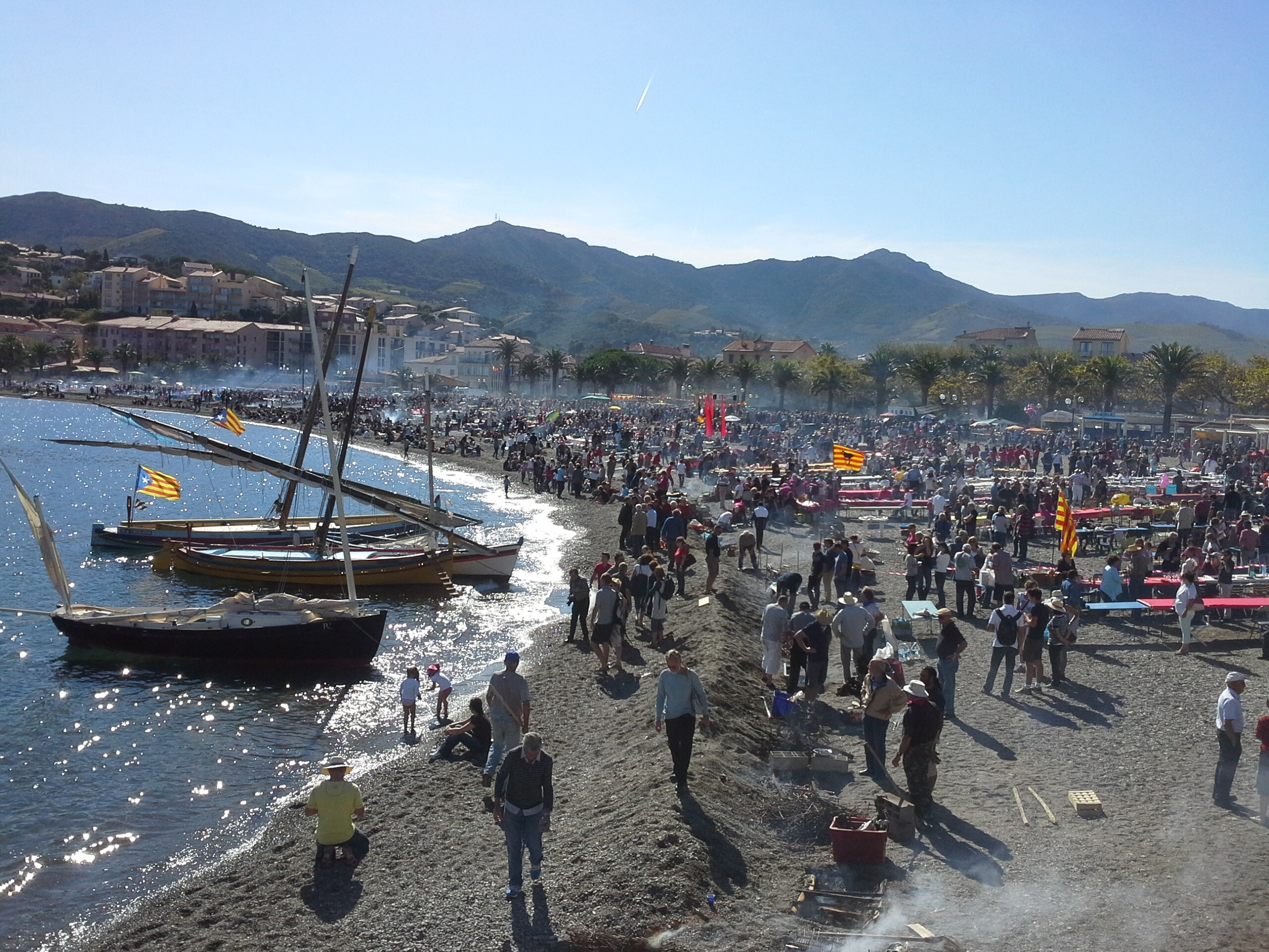 Vintage festival on the beach at Banyuls sur Mer, Roussillon, France